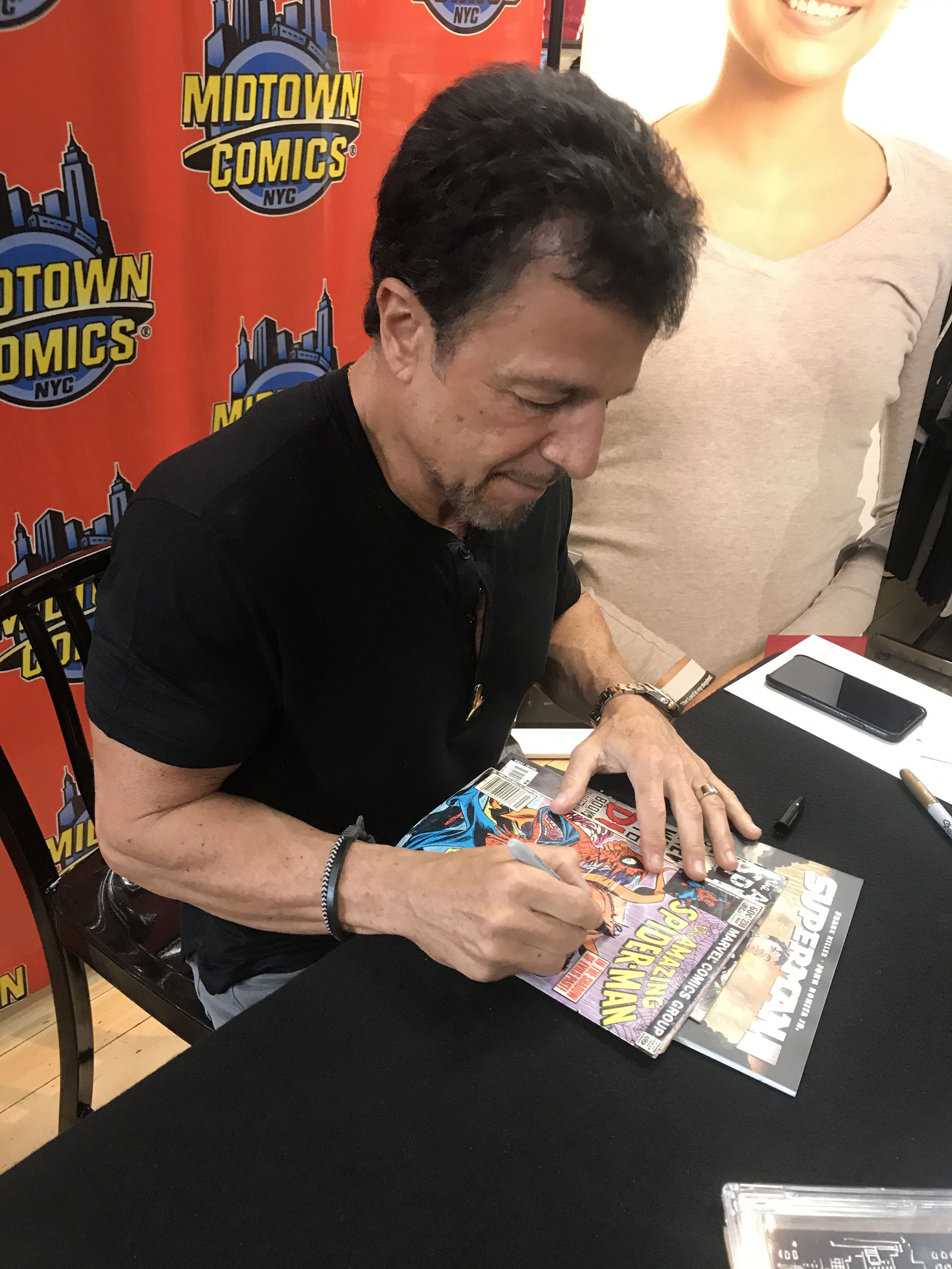 Comics artist John Romita Jr. at a June 20, 2019 book signing for Superman: Year One #1 (August 2019) at Midtown Comics Downtown in Lower Manhattan. In the photo, Romita is signing a copy of The Amazing Spider-Man #238 (March 1983), which features Romita’s depiction of the first appearance of the original Hobgoblin. In the background at right is a poster for St. Jude’s Children’s Research Hospital, to which $2.00 of each signed copy of Superman: Year One was donated, as part of the store’s arrangement with Romita. This photo was created by Luigi Novi. It is not in the public domain, and use of this file outside of the licensing terms is a copyright violation.